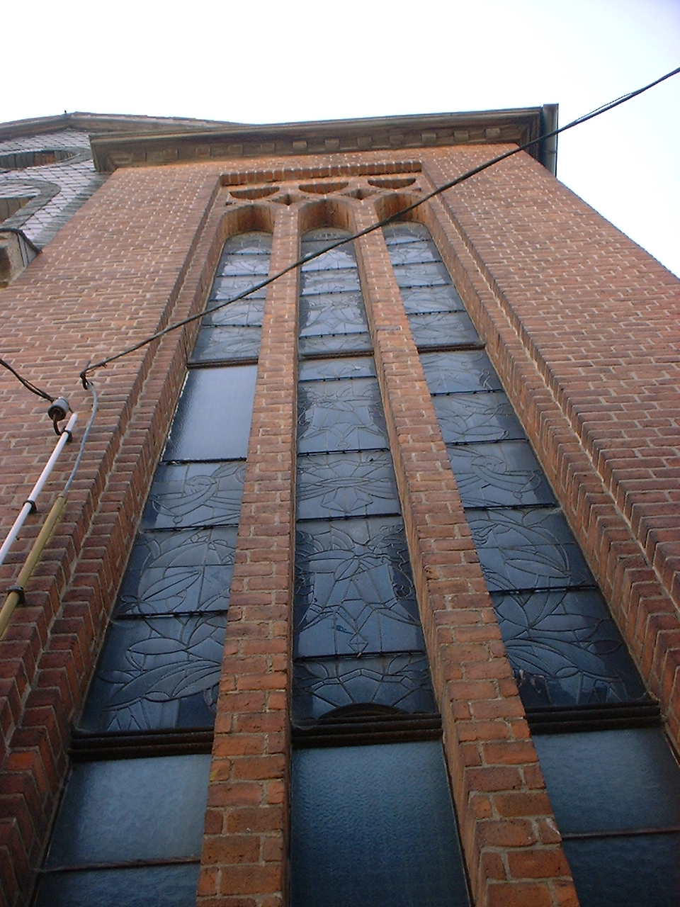 Window in the Archway House in Eberswalde, Germany